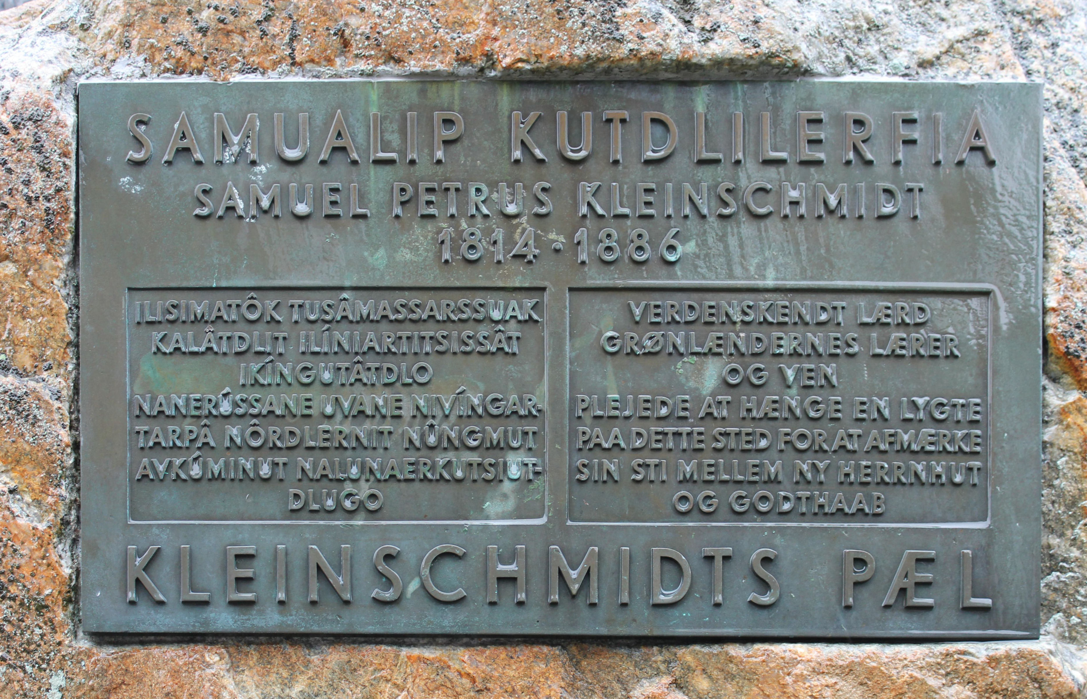 Samuel Kleinschmidt commemoration plate in Nuuk